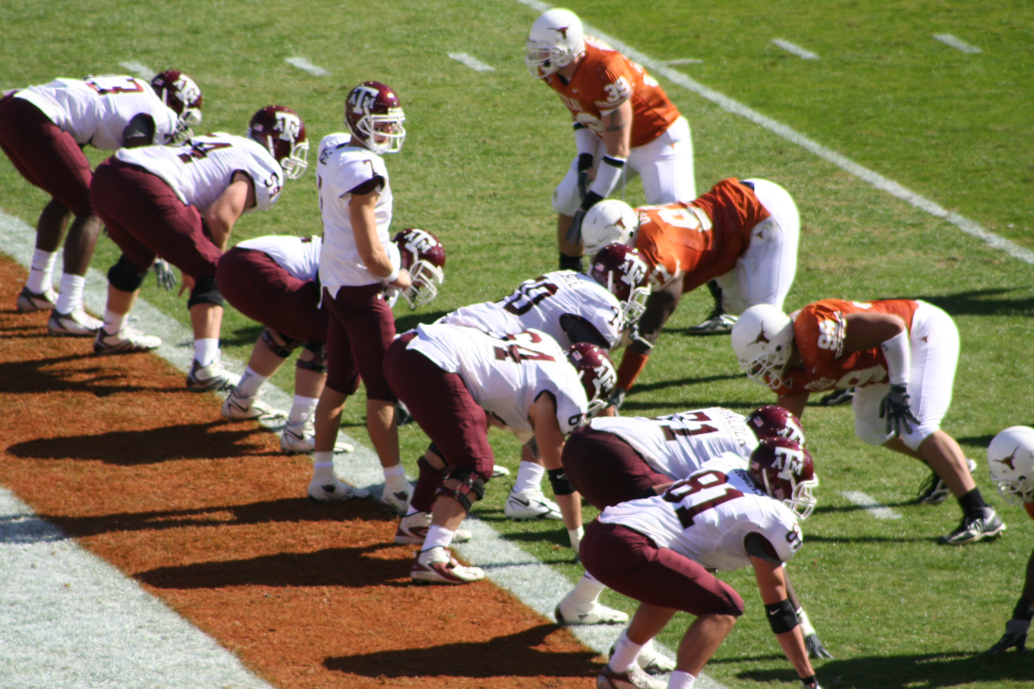 College football game between University of Texas at Austin and Texas A&M University - Quarterback Stephen McGee and the A&M offense on their own goal-line. Texas A&M won 12-7.